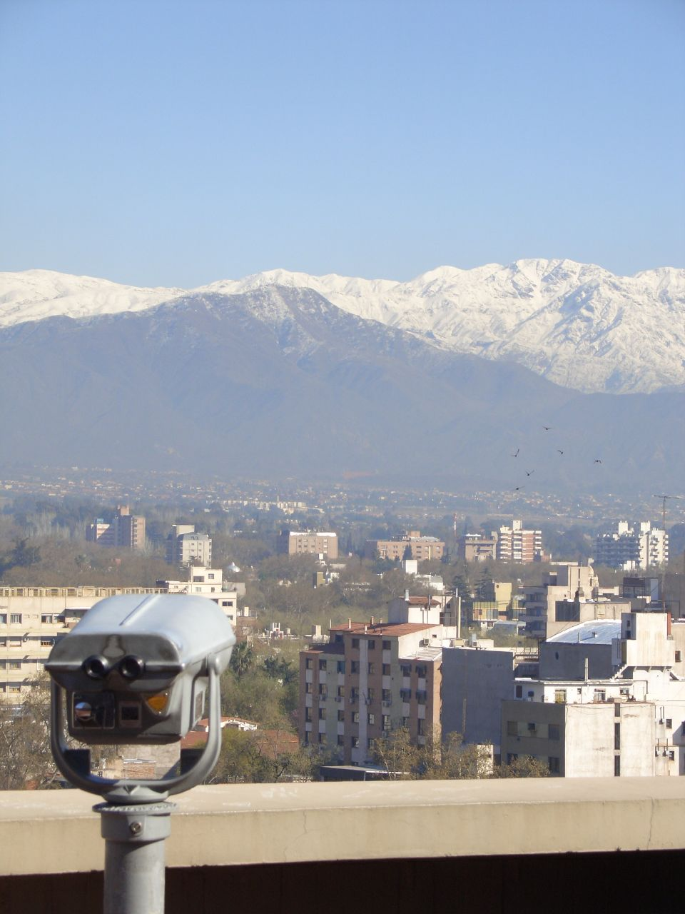 Civic Neighborhood in Mendoza, Argentina.View of the Andes from Teraza Mirador